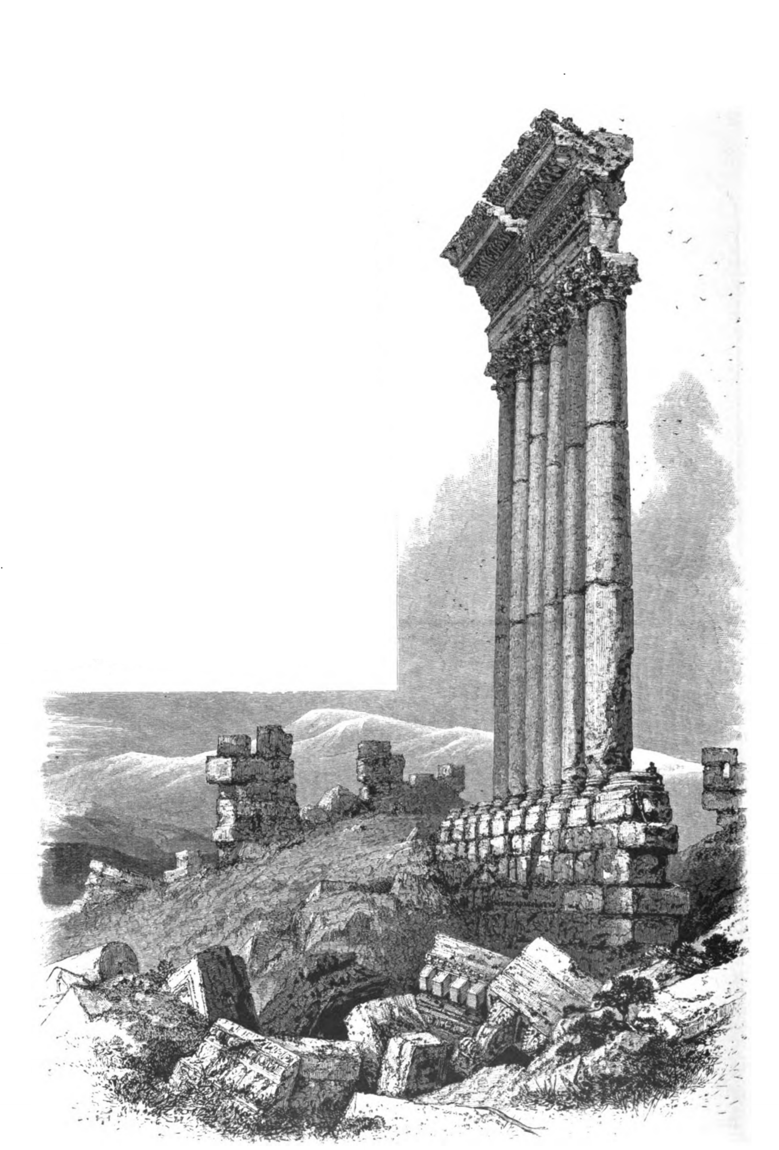 Caption: the six columns of the great temple, ba'albek.The winter winds of centuries have almost destroyed the carving on the north side of the capitals; but the south side of the capitals and of theentablature, shown above, are in a good state of preservation. An 1881 engraving of the 6 remaining columns of the Temple of Jupiter at Baalbek.